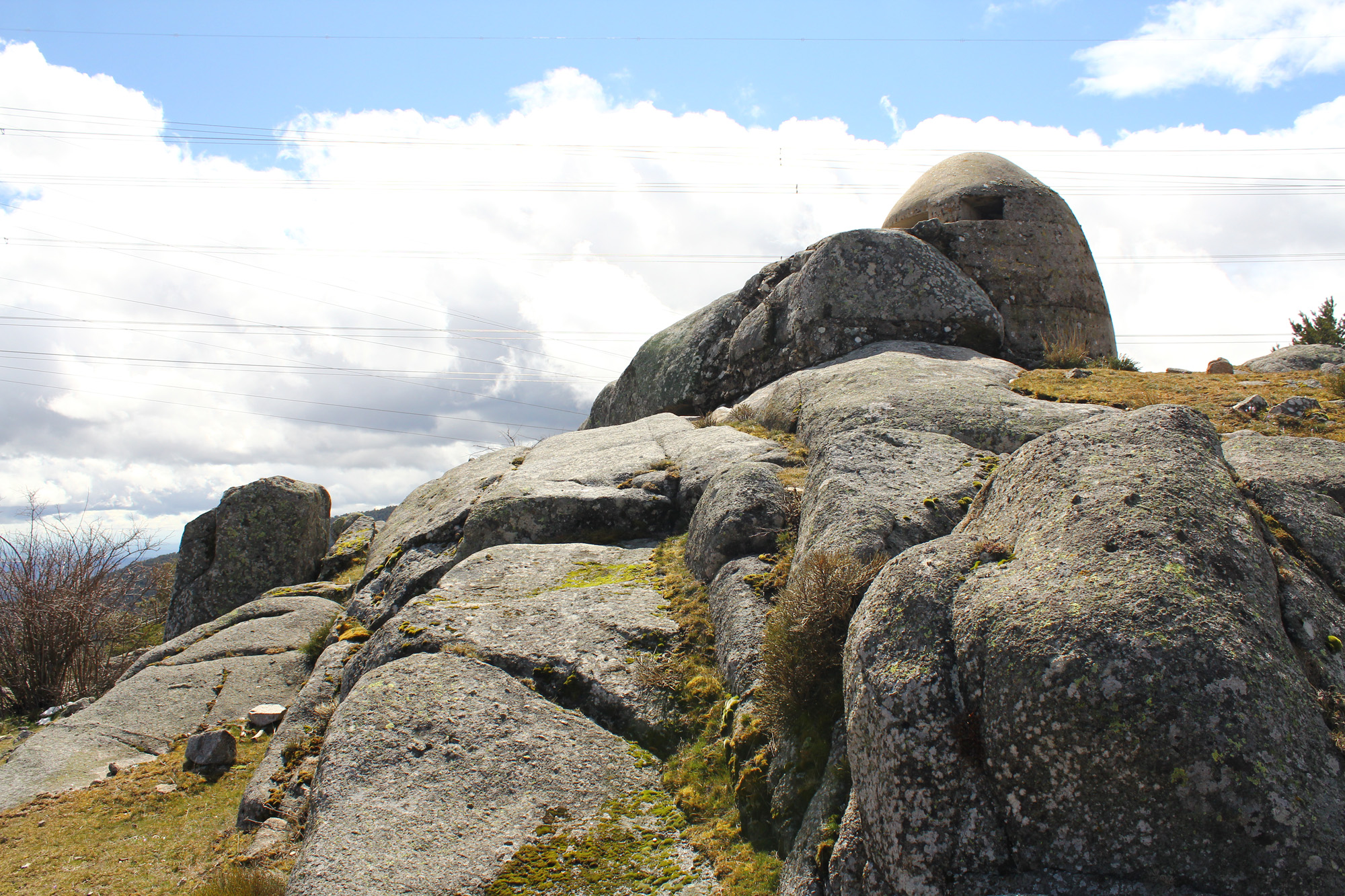 Bunker of the Spanish Civil War in the Alto del León